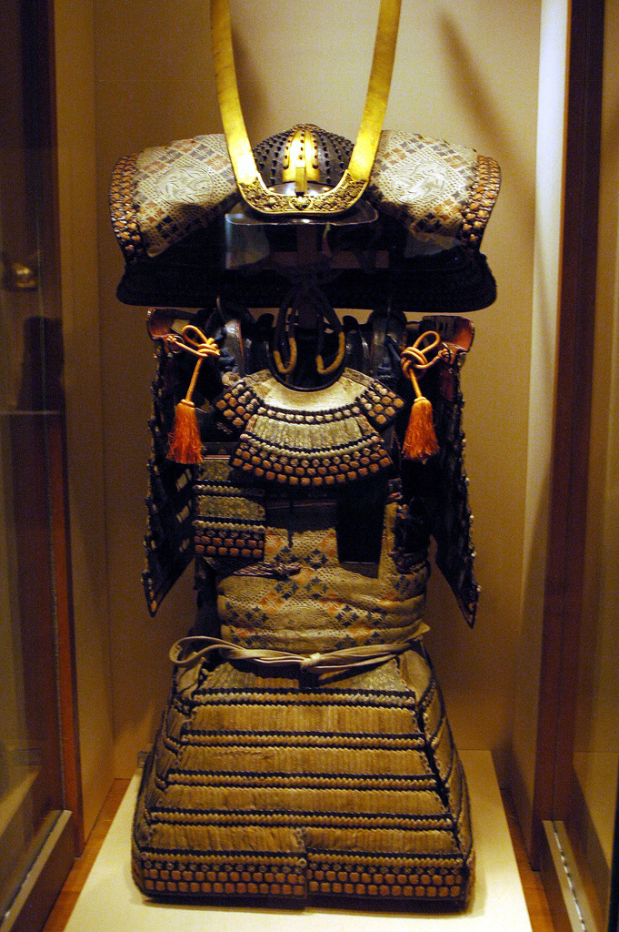 Antique Japanese (samurai) O-Yoroi armor, Metmuseum.